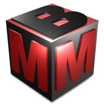 MMB LOGO